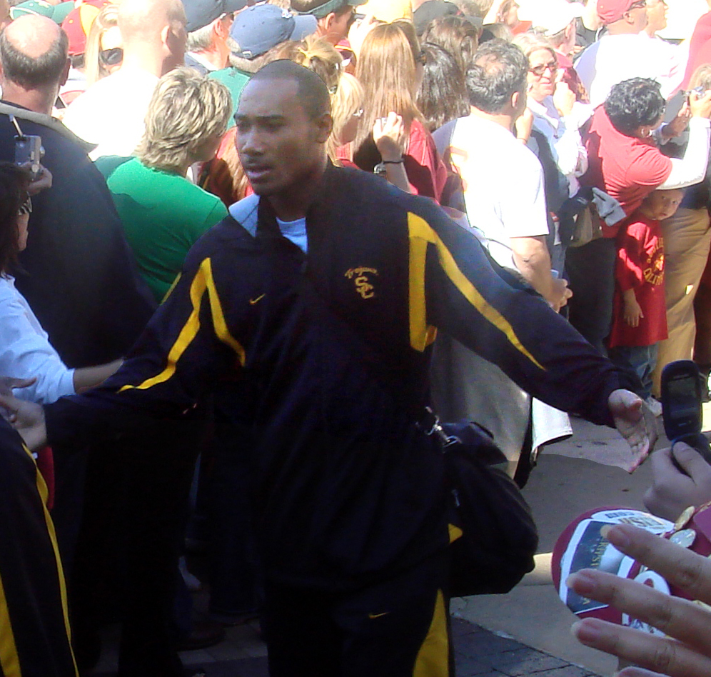 Hershel Dennis, walking with the rest of the USC Trojans football team towards Notre Dame Stadium.